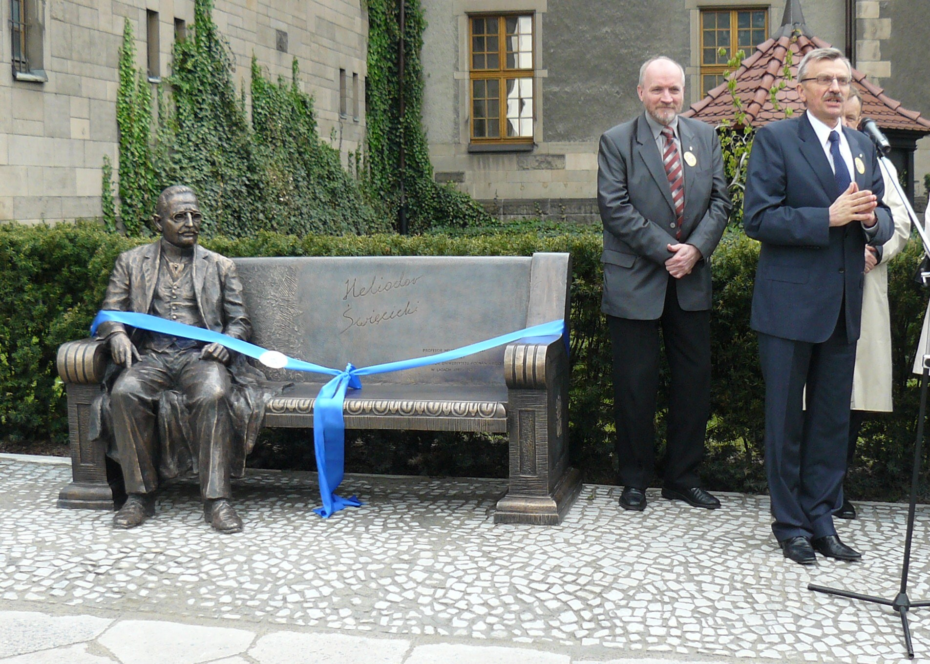 H.Swiecicki Monument, Poznan.